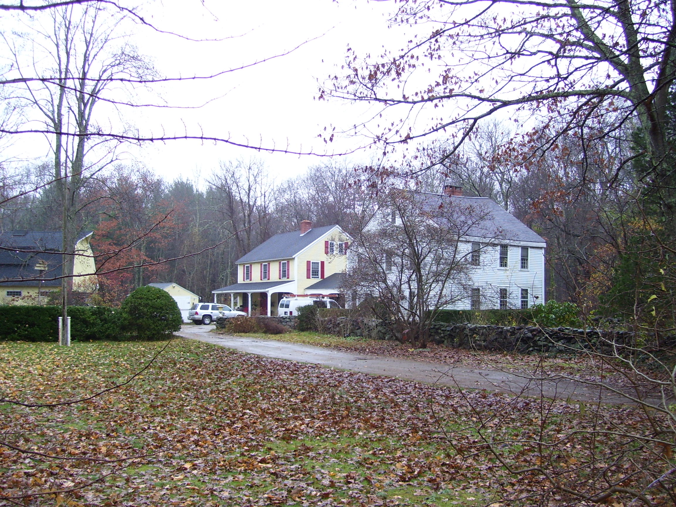 This is my 2008 photo of the Palmer-Northrup House in North Kingstown, Rhode Island, USA.